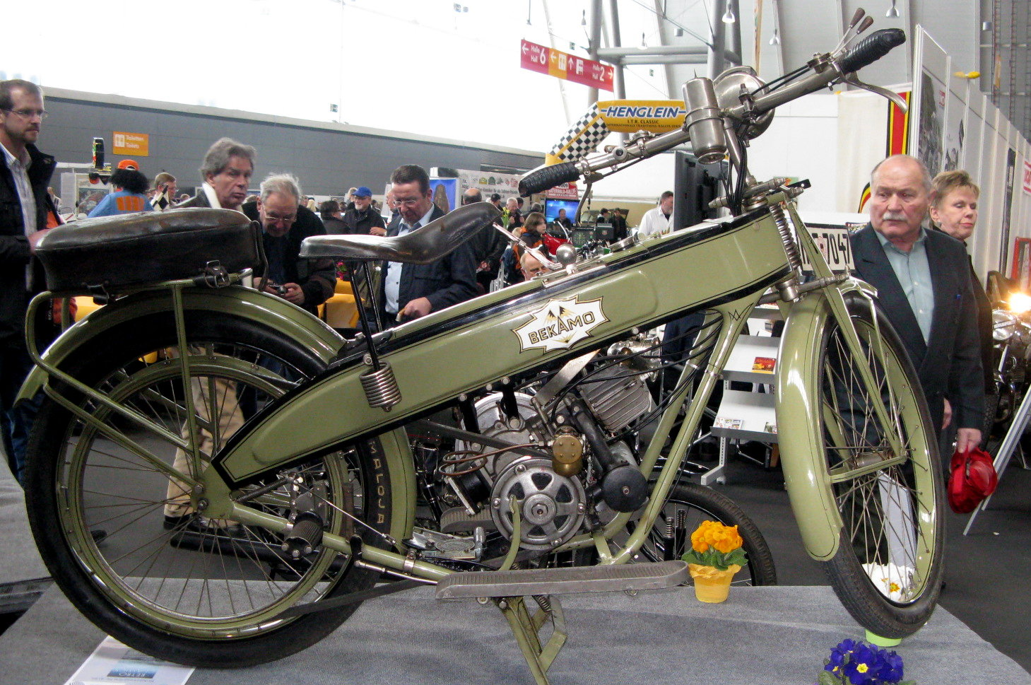 1922 Bekamo 3.5 hp